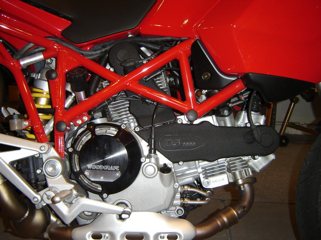 Ducati 90-Degree L-Twin Motor